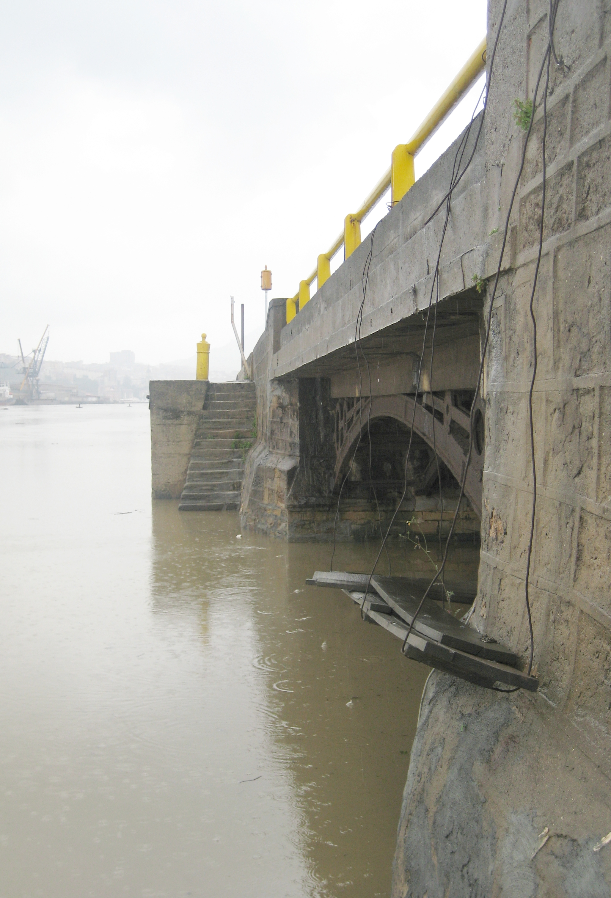 Bridge over the mouth of Udondo-Gobela river tributing into the Ibaizabal-Nervión, in Leioa. The iron structure of this bridge was previously used in one of the arches of Isabel II's bridge, between Bilbao and Abando (currently the Arenal Bridge is located there, with both banks integrated in Bilbao), and it was transported to Leioa and reused for this bridge after the demolition of the original work in 1876.